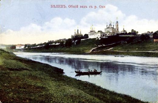 city Belyov in 1900s